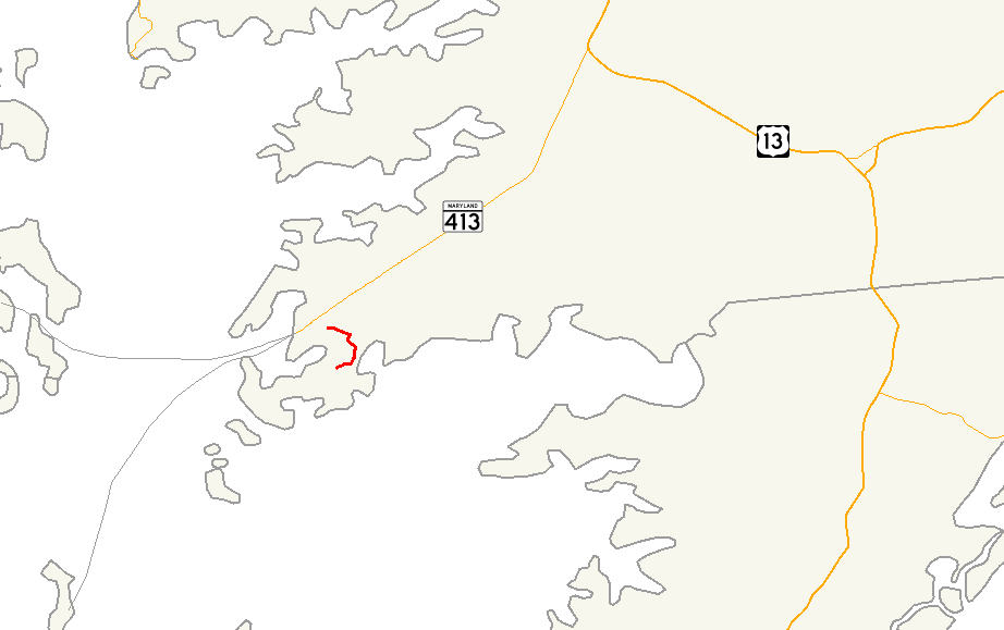 Map of Maryland 380